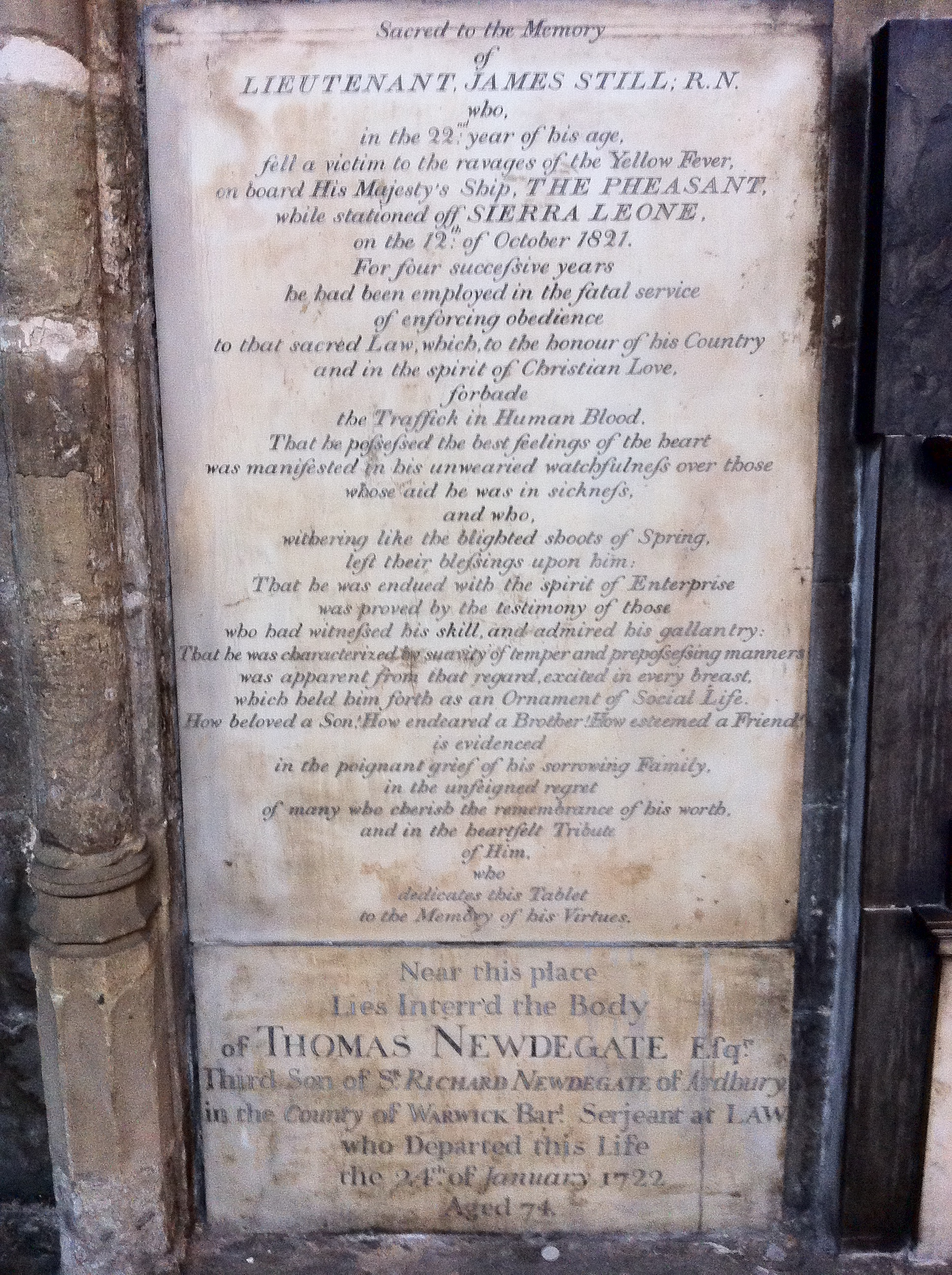 Top: Memorial to Lieutenant James Still R.N (d 12 October 1821). He died on His Majesty's Ship, The Pheasant, off Sierra Leone. Bottom: Memorial to Thomas Newdegate (d 24 January 1722)